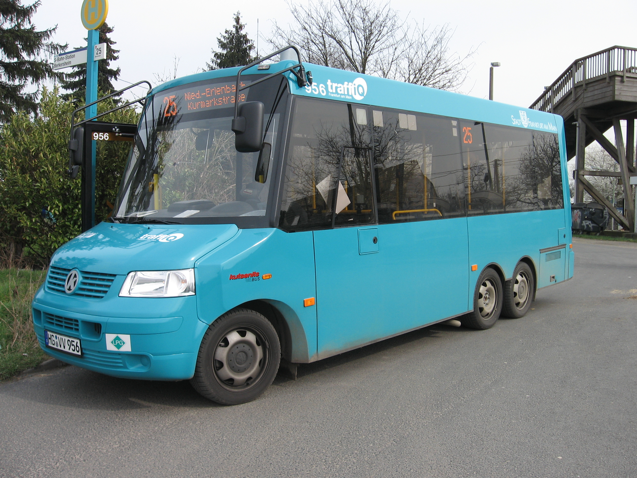 Kutsenits City IV, Alpina Bad Homburg, Wagen 956.